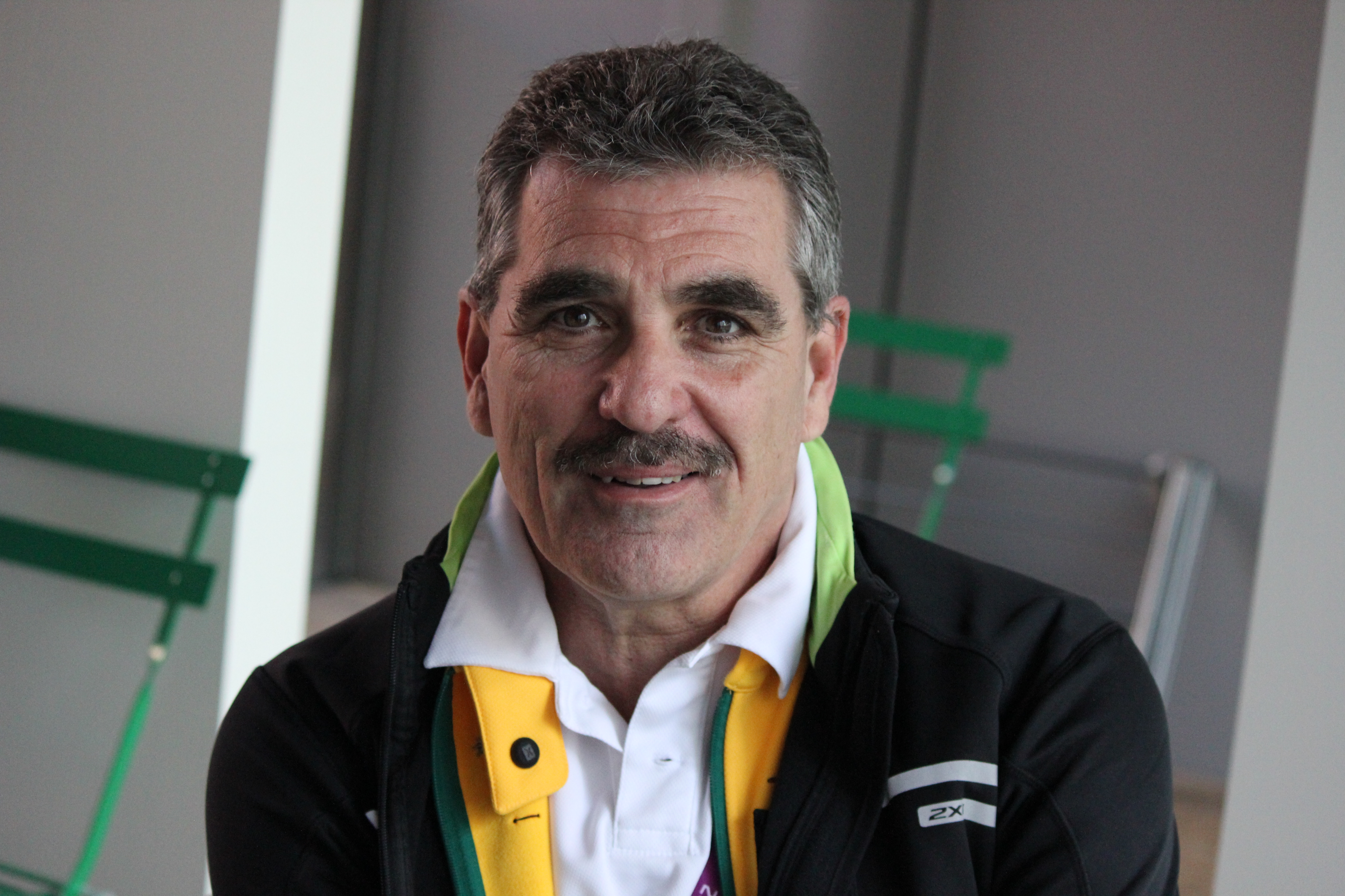 President of the Oceania Paralympic Commitee